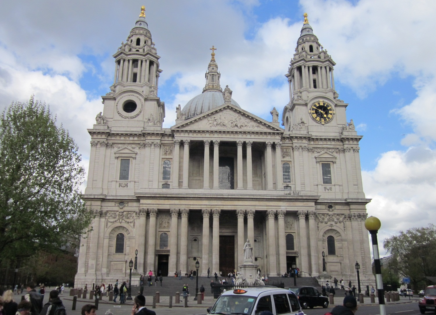 West facade of Saint Paul's Cathedral, London